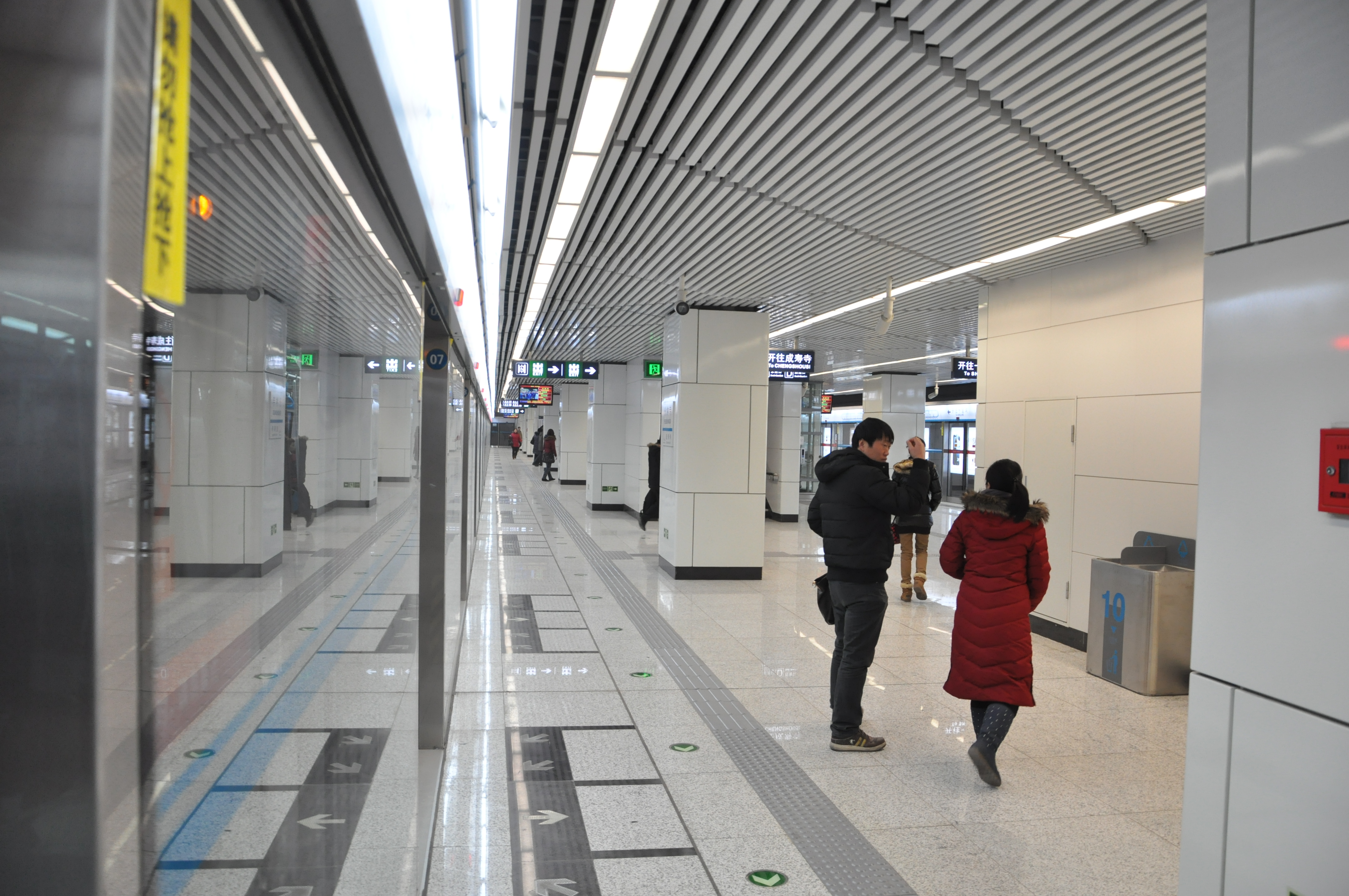 Platform of Fenzhongsi station, Line 10, Beijing Subway